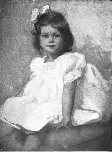 "A Portrait", by Adelaide Cole Chase (From a Copley Print. Copyright, 1901, by Curtis & Cameron)